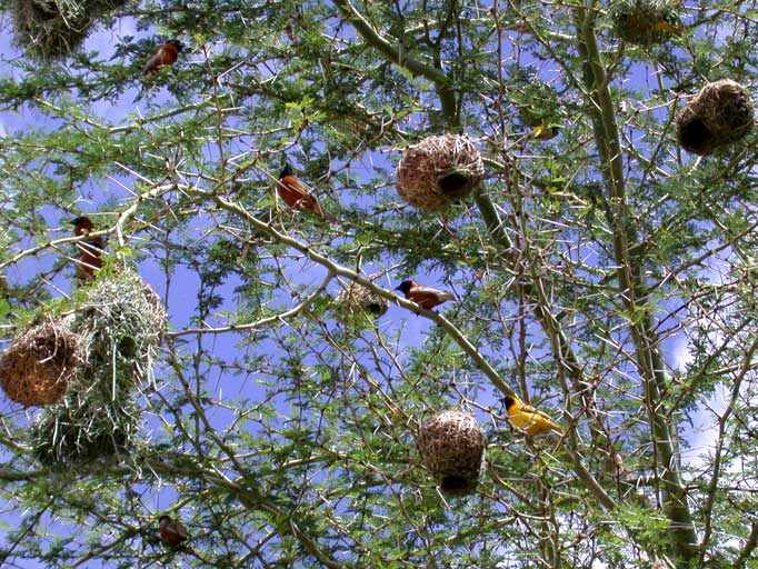 Mixed colony of weavers. Picture taken in Namibia. Ploceus rubiginosus (chestnut brown) and Ploceus velatus (yellow).